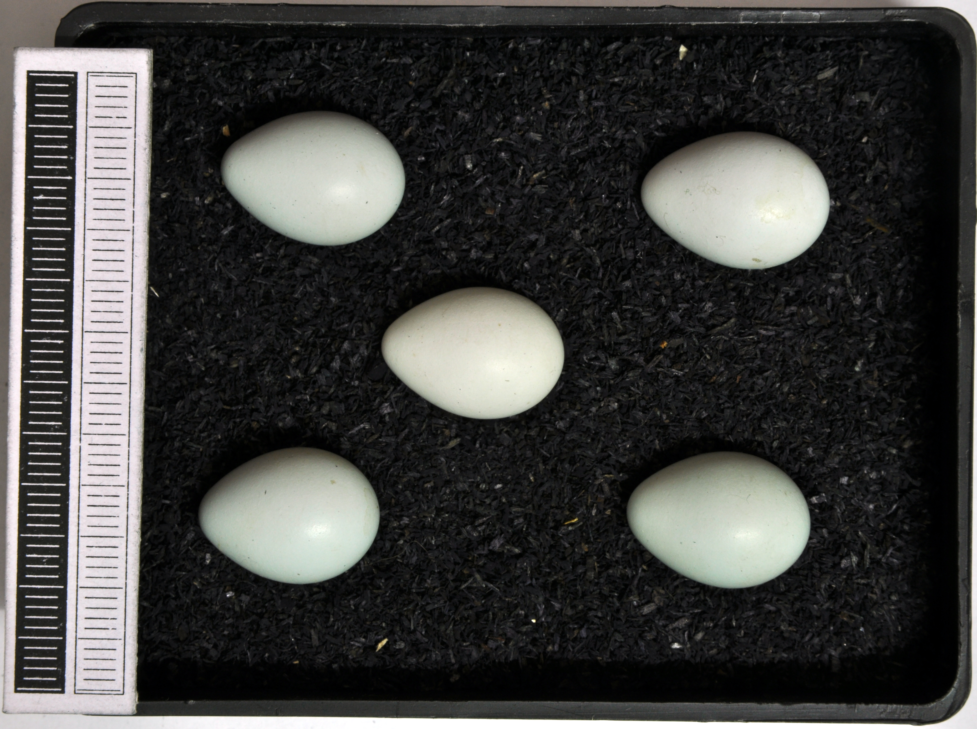 collared flycatcher Ficedula albicollis , egg, Coll. Museum Wiesbaden, Origin: Wadern-Lockweiler/Saar, Germany, 18.05.1971, leg. W. Abelmann